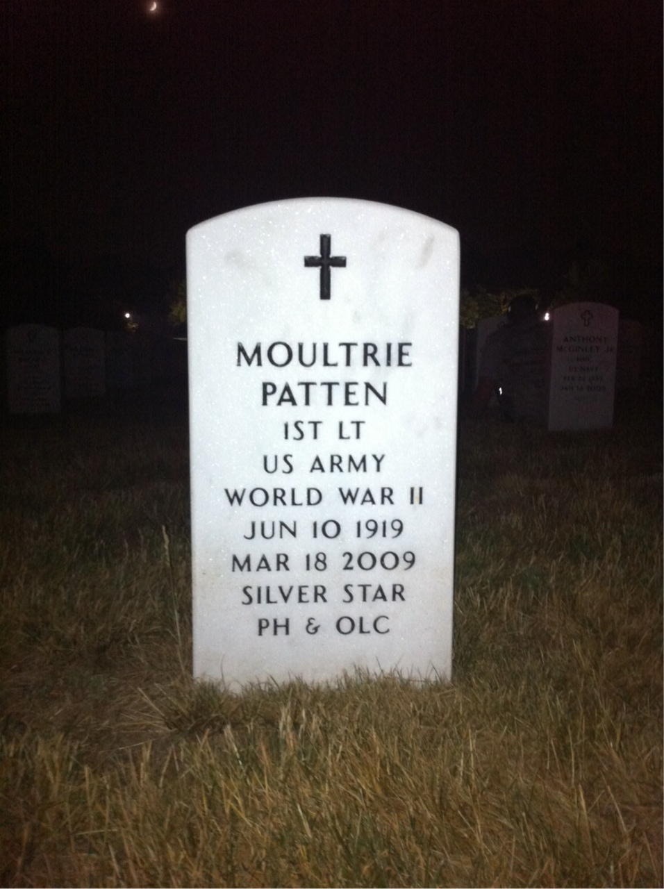 Grave of Moultrie Patten at Arlington National Cemetery